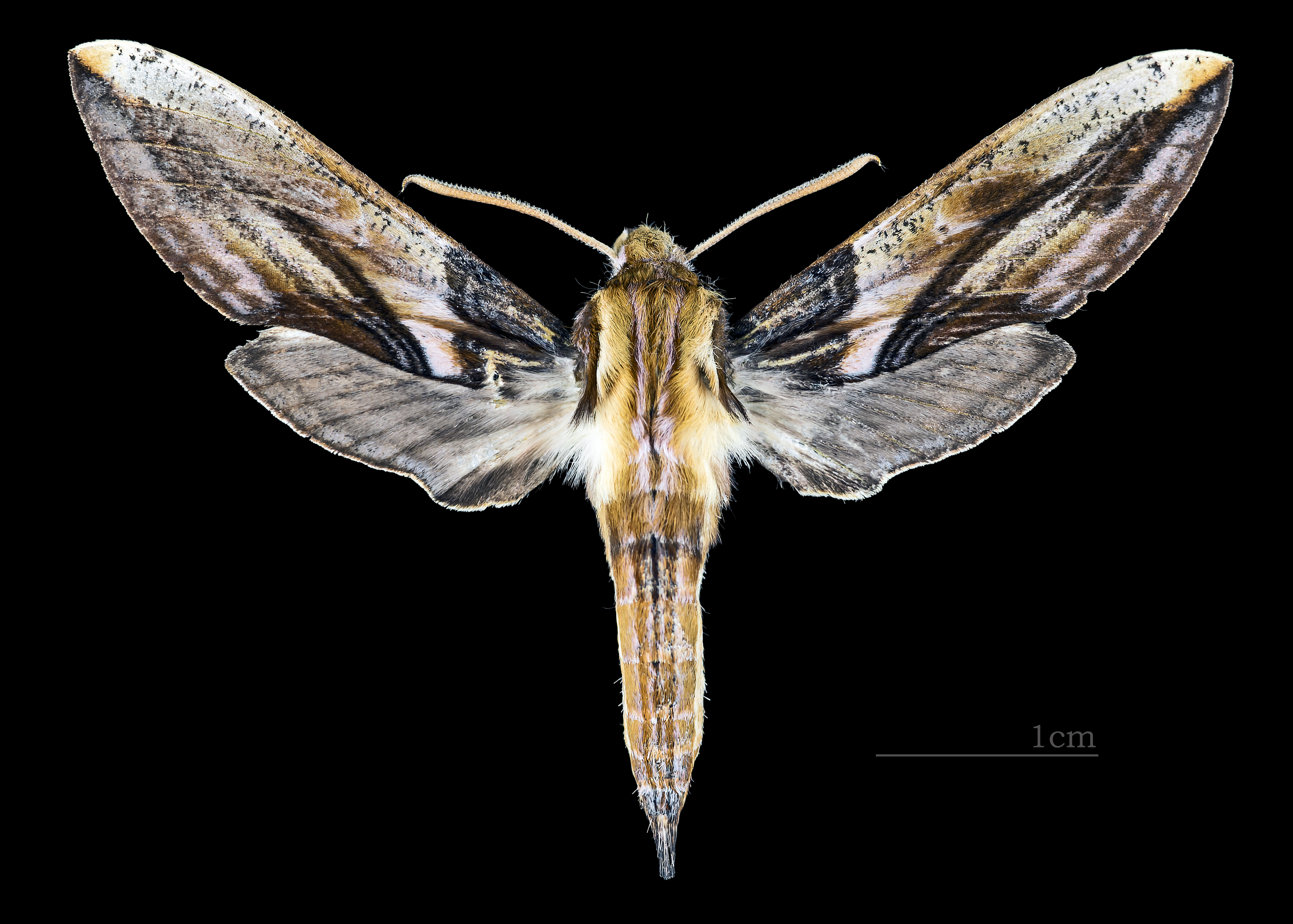 Xylophanes jordani - Dorsal side